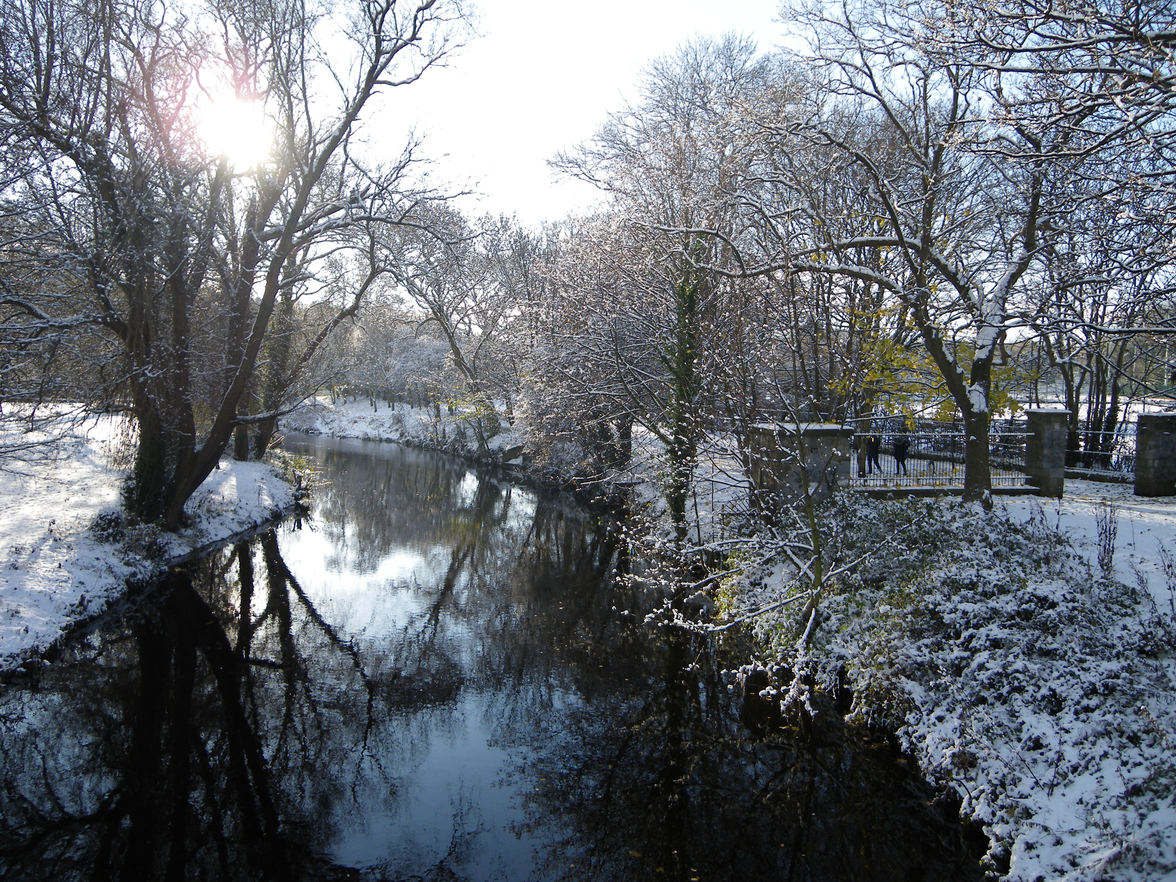 River Dodder in Rathgar, from Orwell Road, under the snow